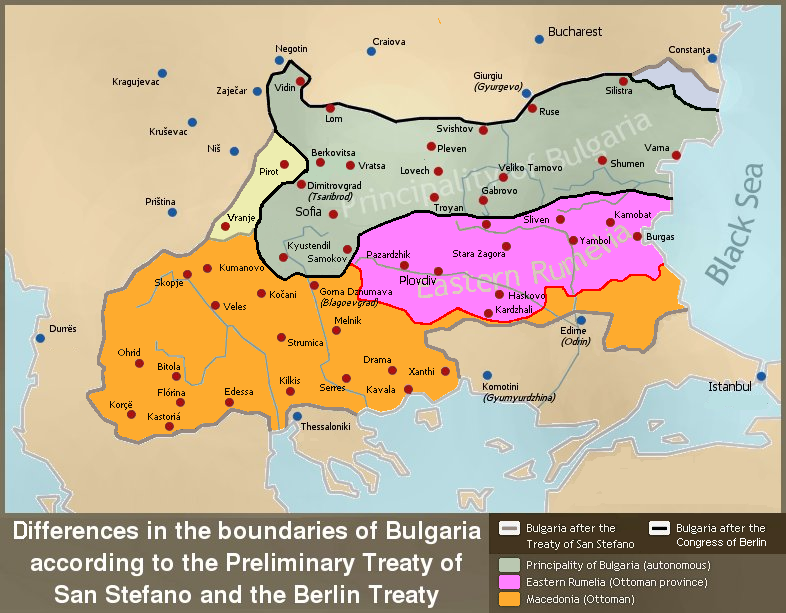 Borders of Bulgaria according to the Treaty of San Stefano and Congress of Berlin